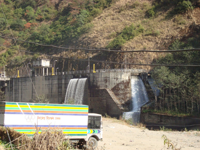 Hydropower station in Nepal नेपाली: विद्युत उत्पादन गर्ने क्षेत्र